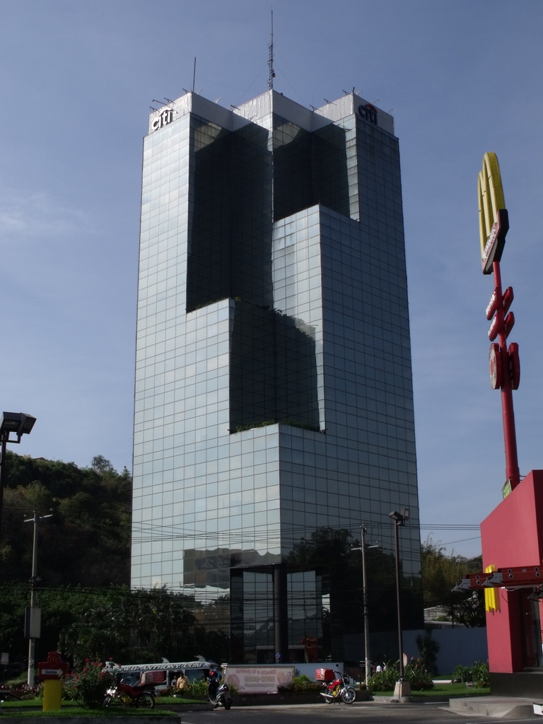 Exterior view of the citi tower